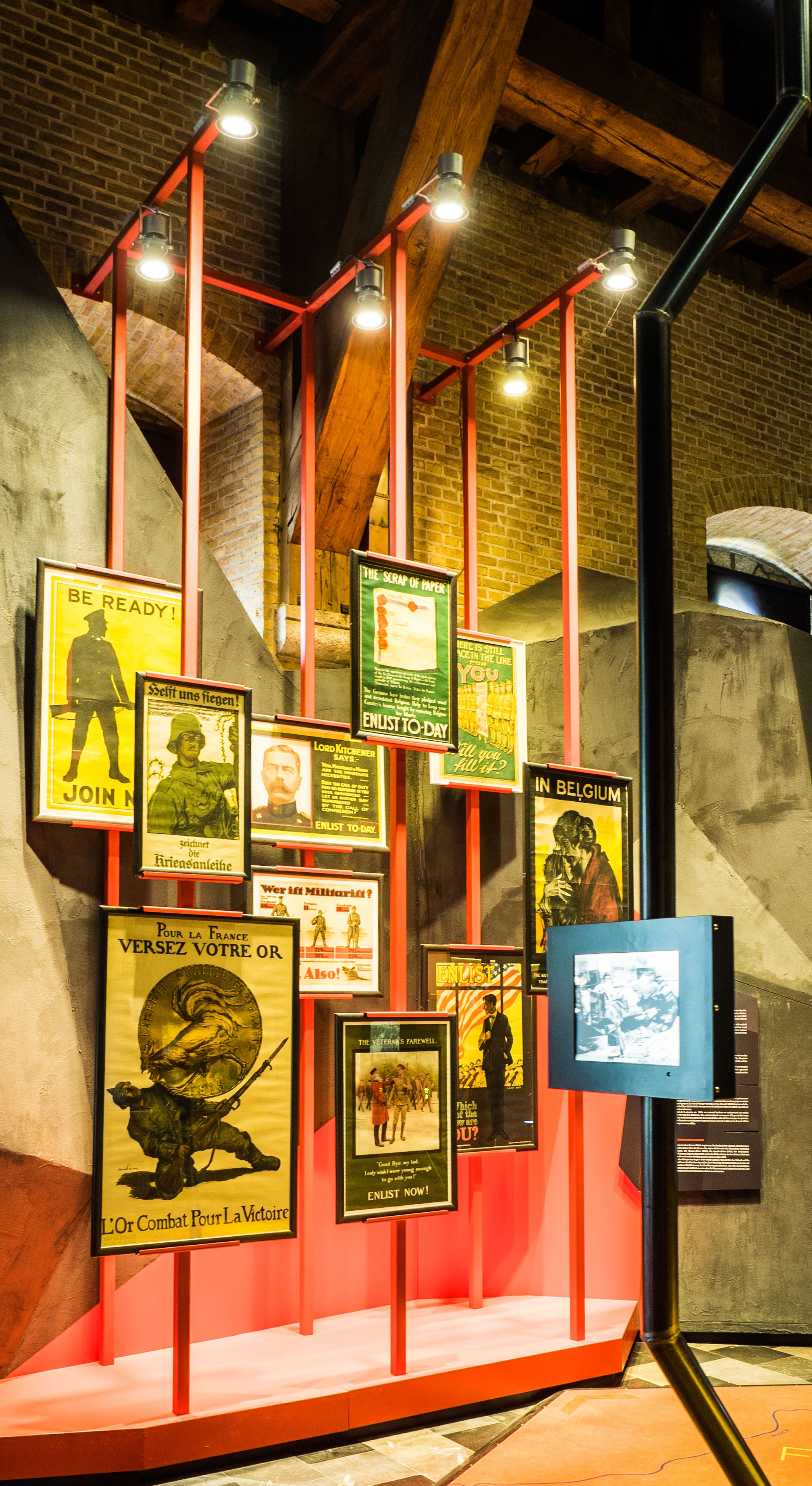 In the Museum In Flanders Field Museum